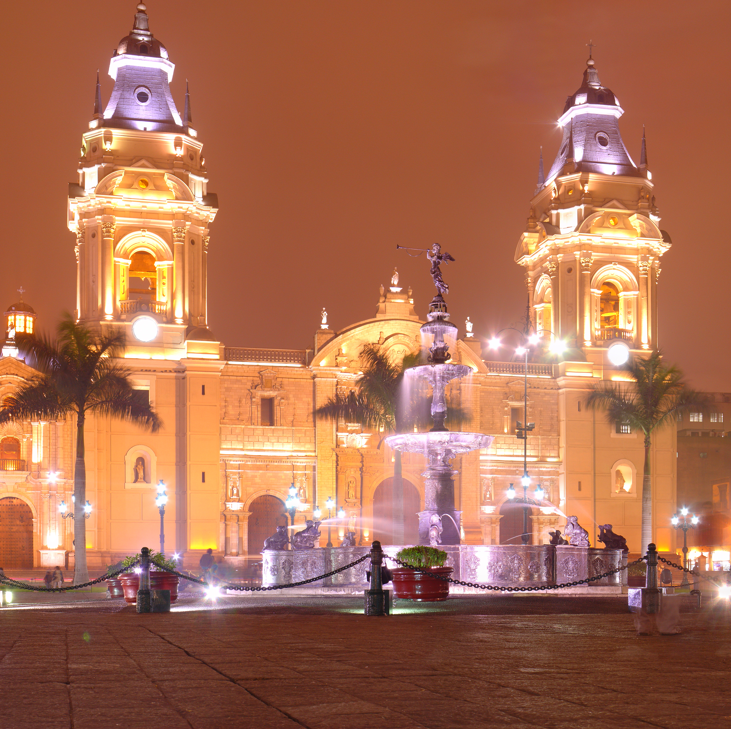 Night shot of the Lima Cathedral